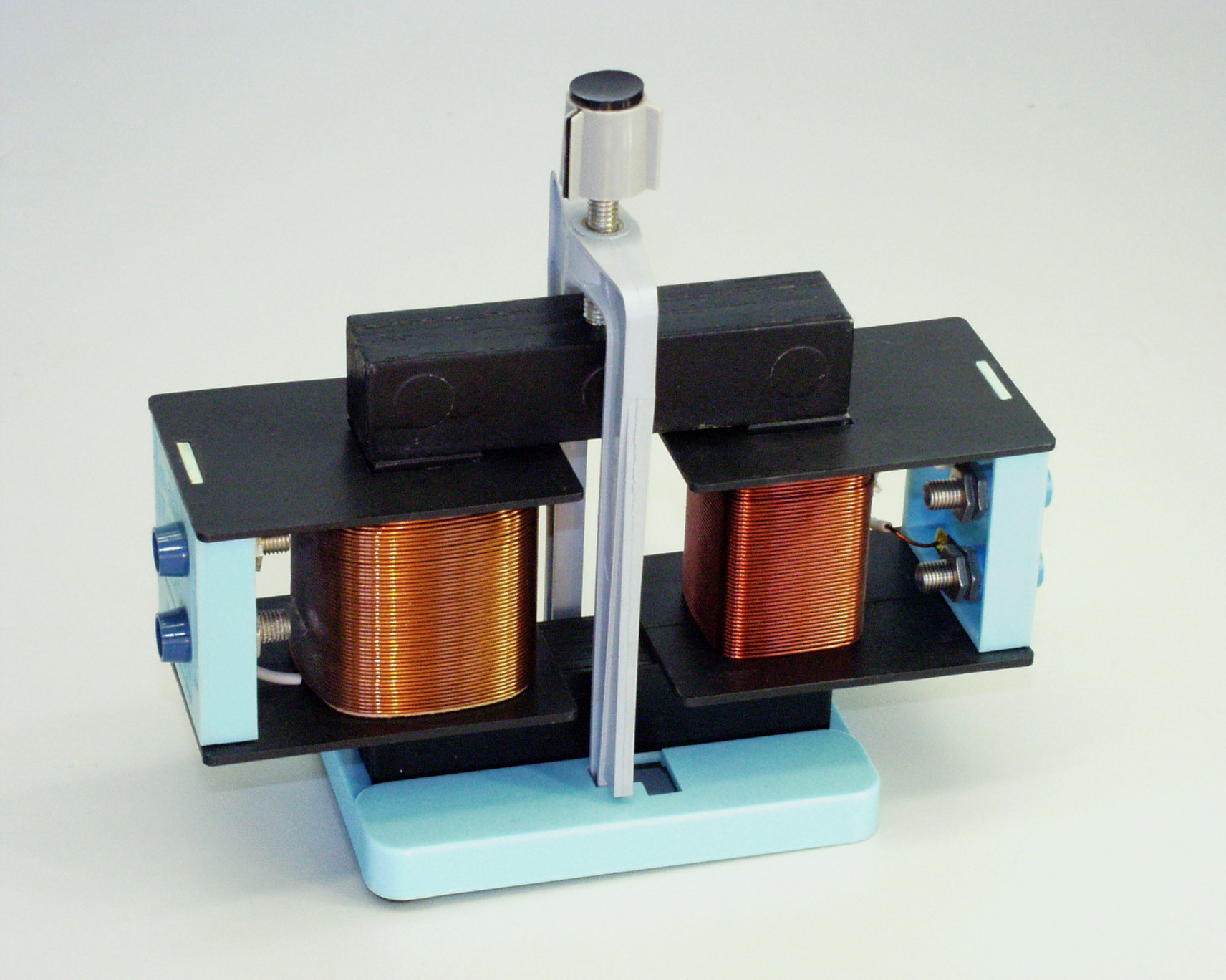 Demountable transformer (5.)